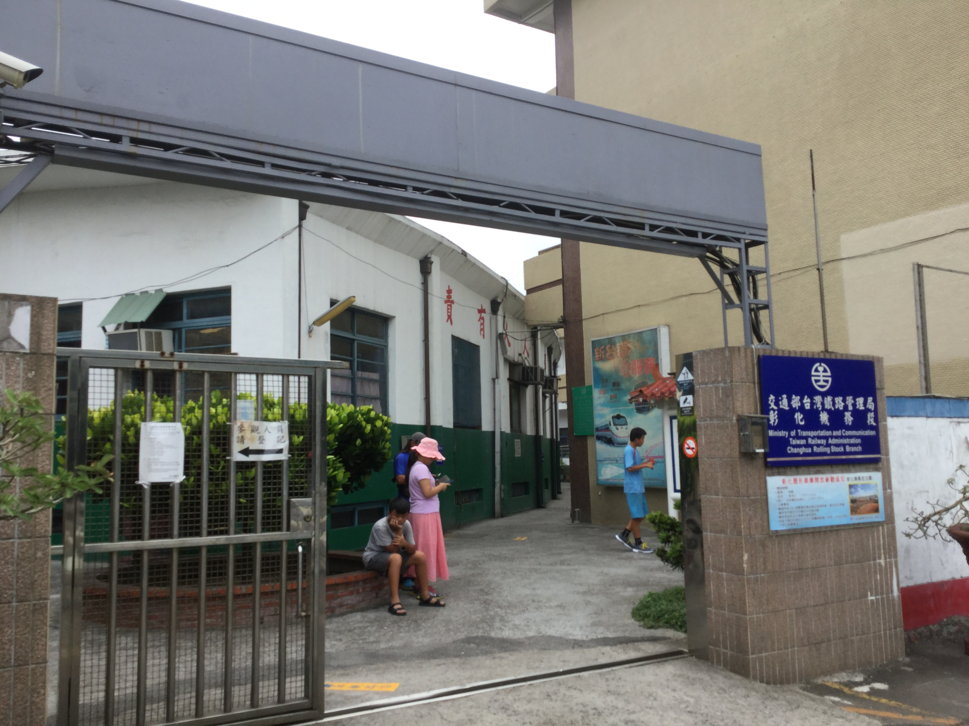 TRA Changhua Rolling Stock Branch entrance.